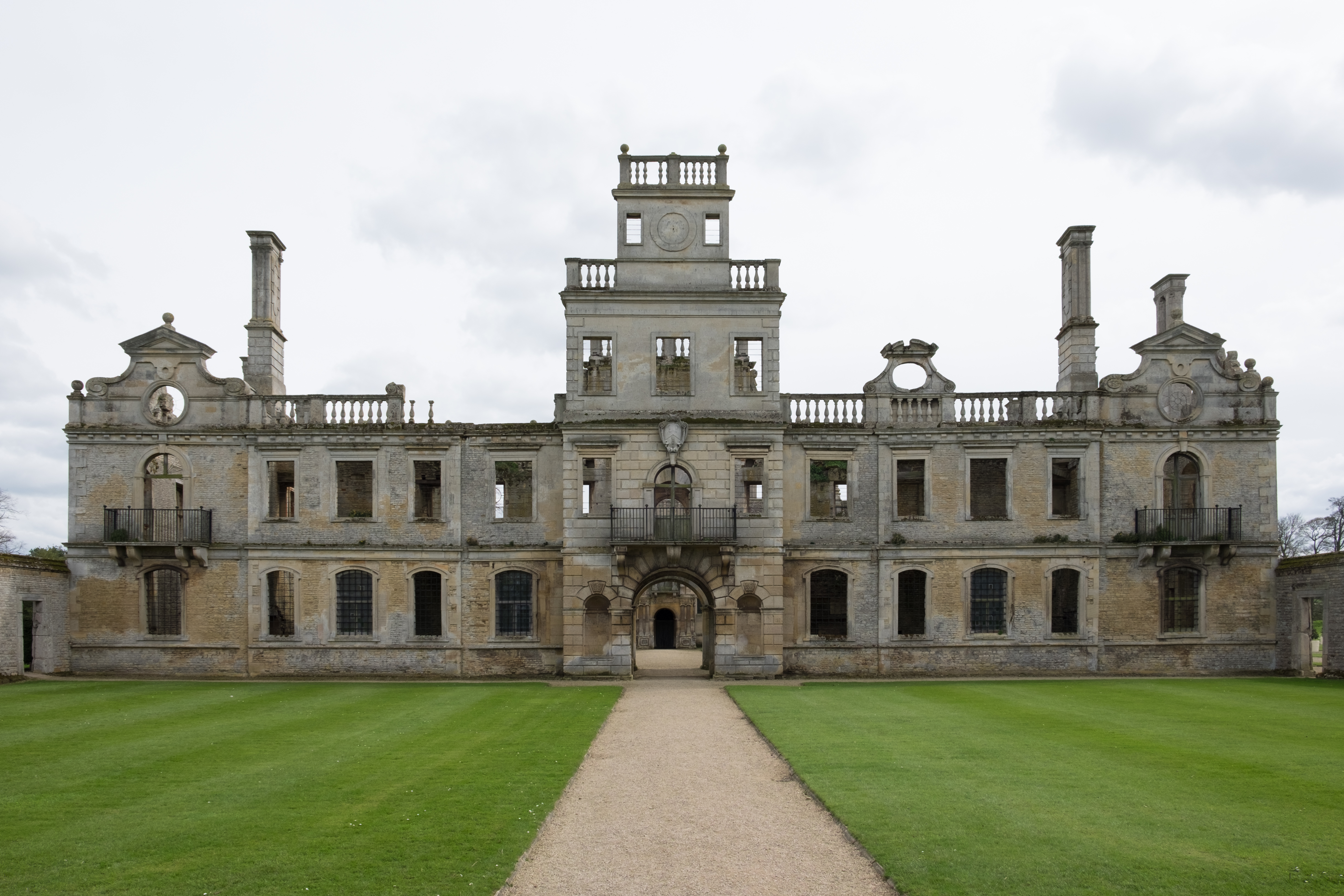 Kirby Hall, Northamptonshire. North front from forecourt.